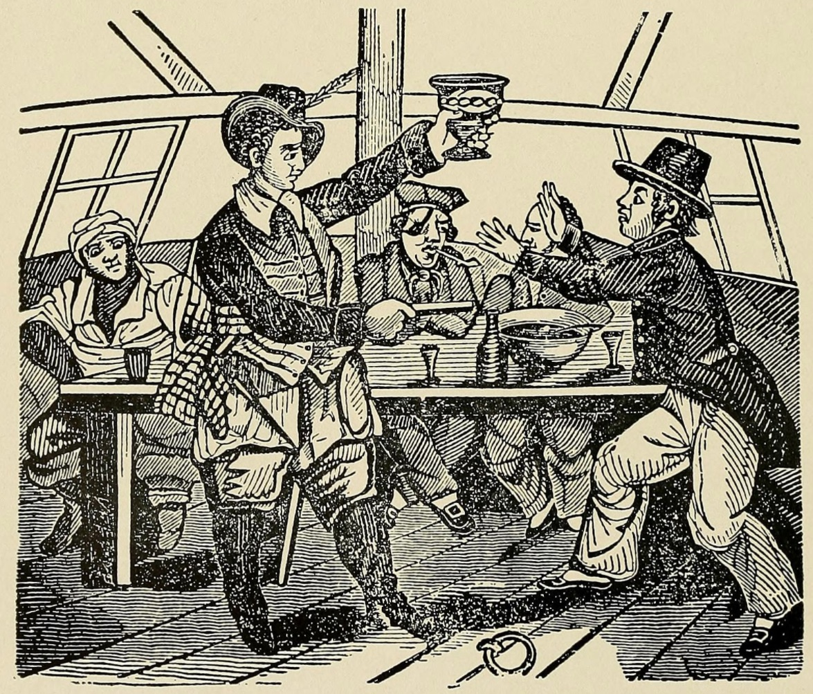 Pirate Captain Edward Low presenting a Pistol and Bowl of Punch.